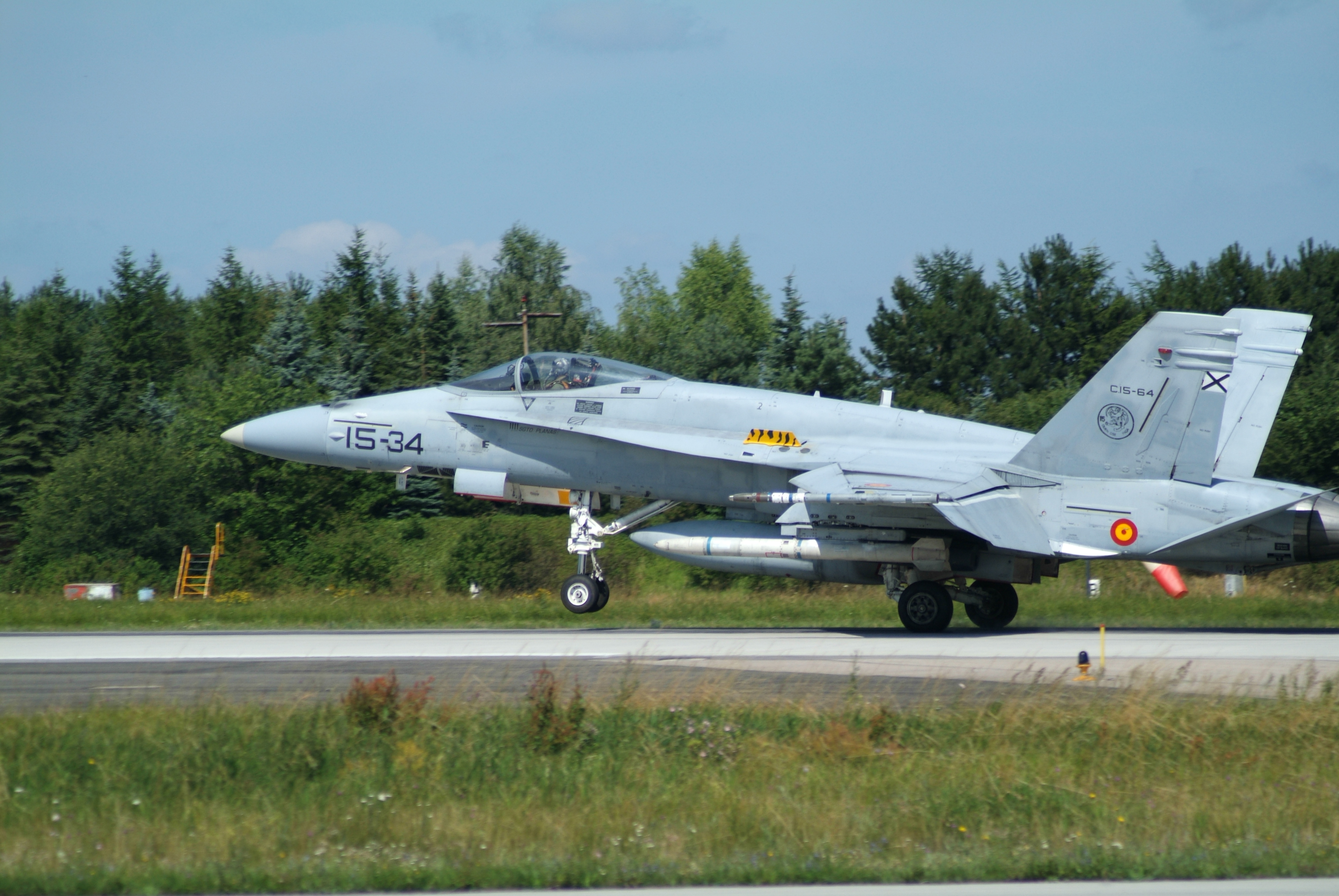 Spanish EF-18A